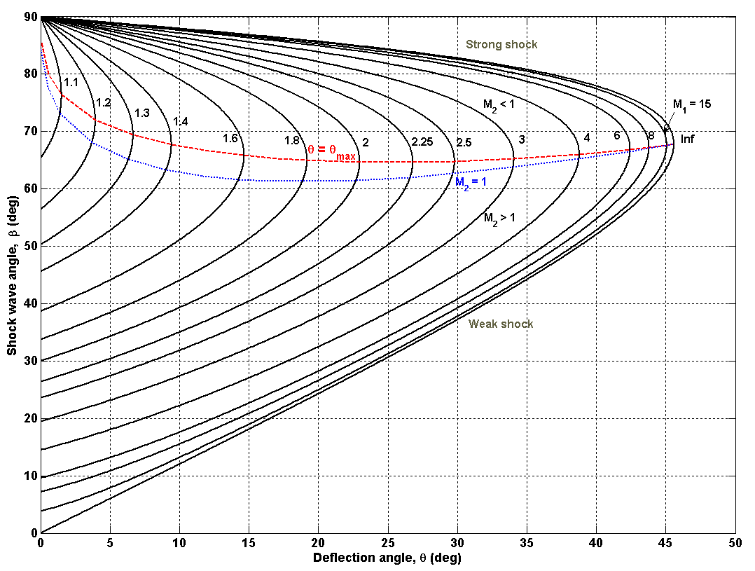 This figure shows the angle at which a shock will be formed in a 2D supersonic flowfield for various deflection angle. M1 is the upstream Mach number, M2 is the downstream Mach number.